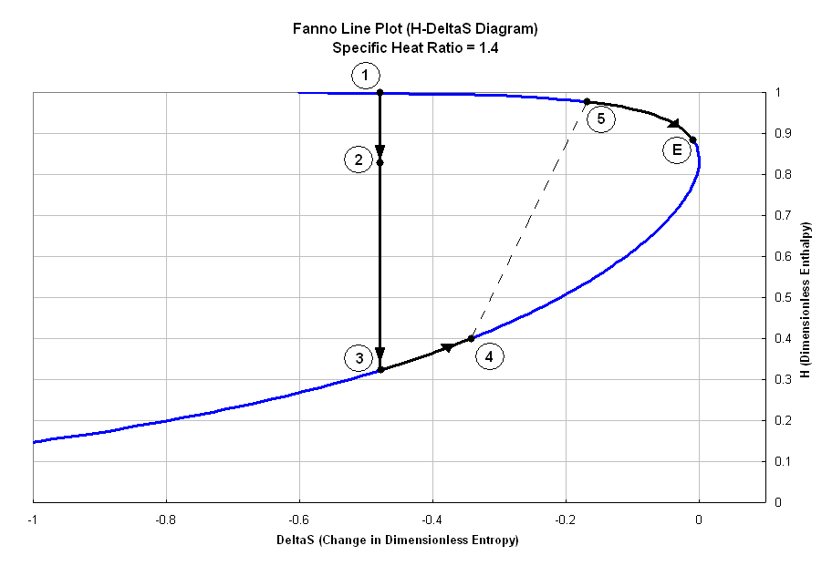 this is a graph of a Fanno line for a nozzle leading into a constant area duct for the Fanno flow article.